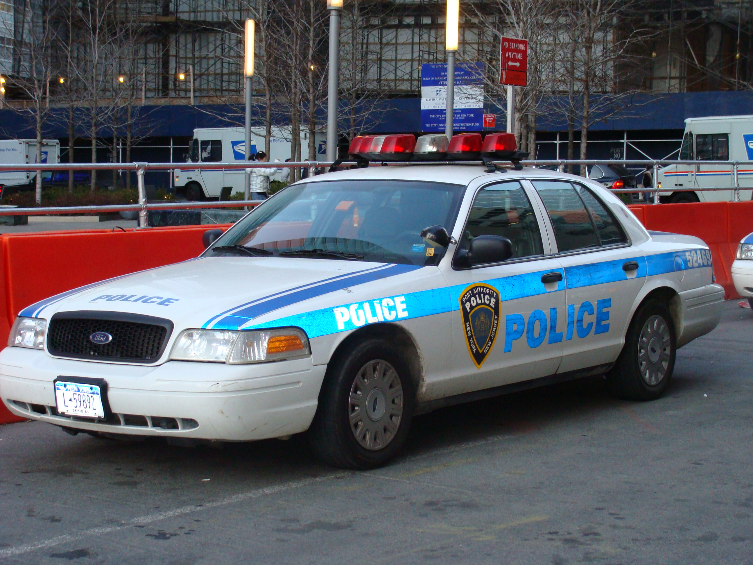 An NY/NJ Port Authority Police Department Ford Police Interceptor parked near the World Trade Center.